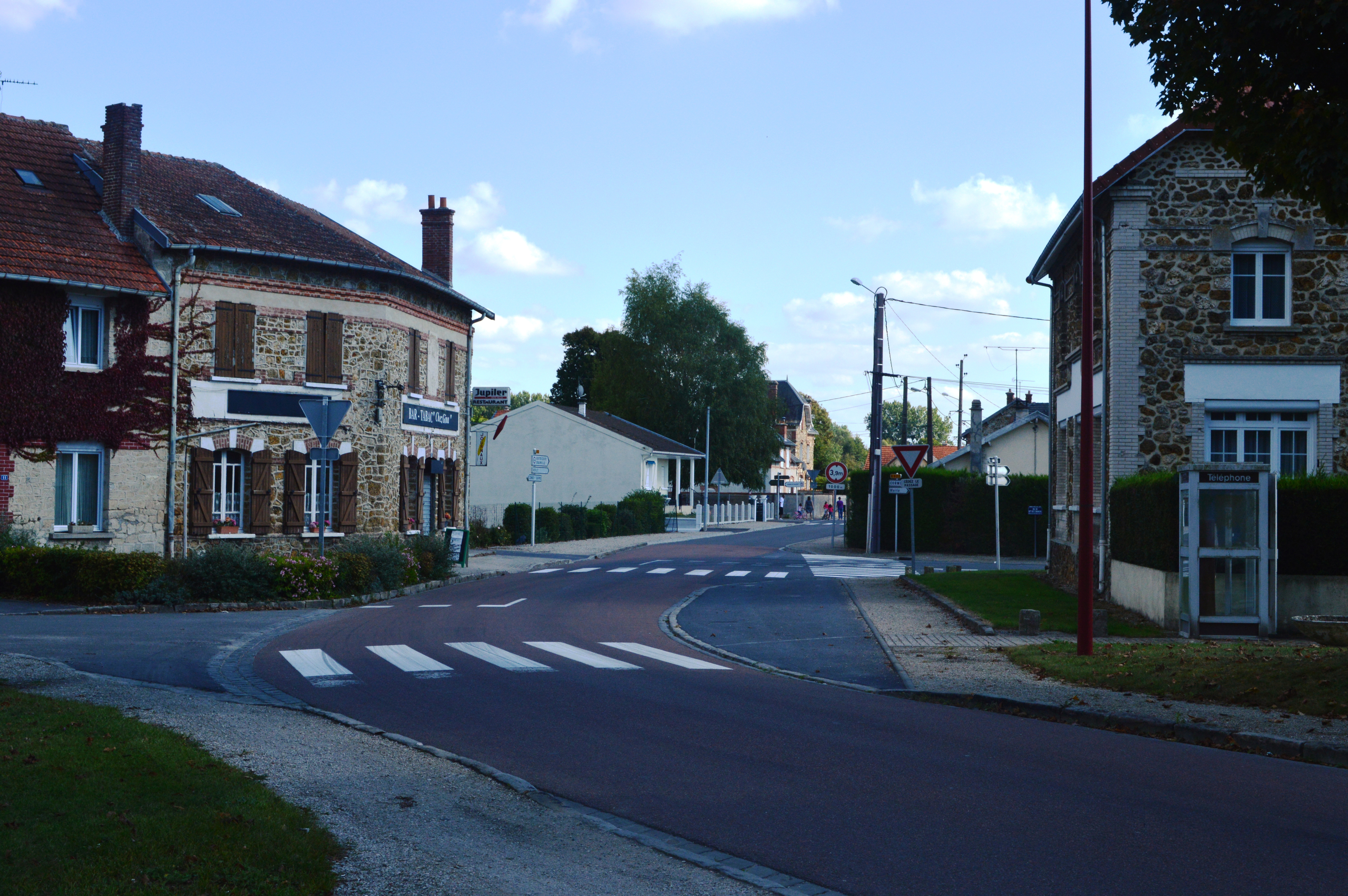 A street in Aguilcourt